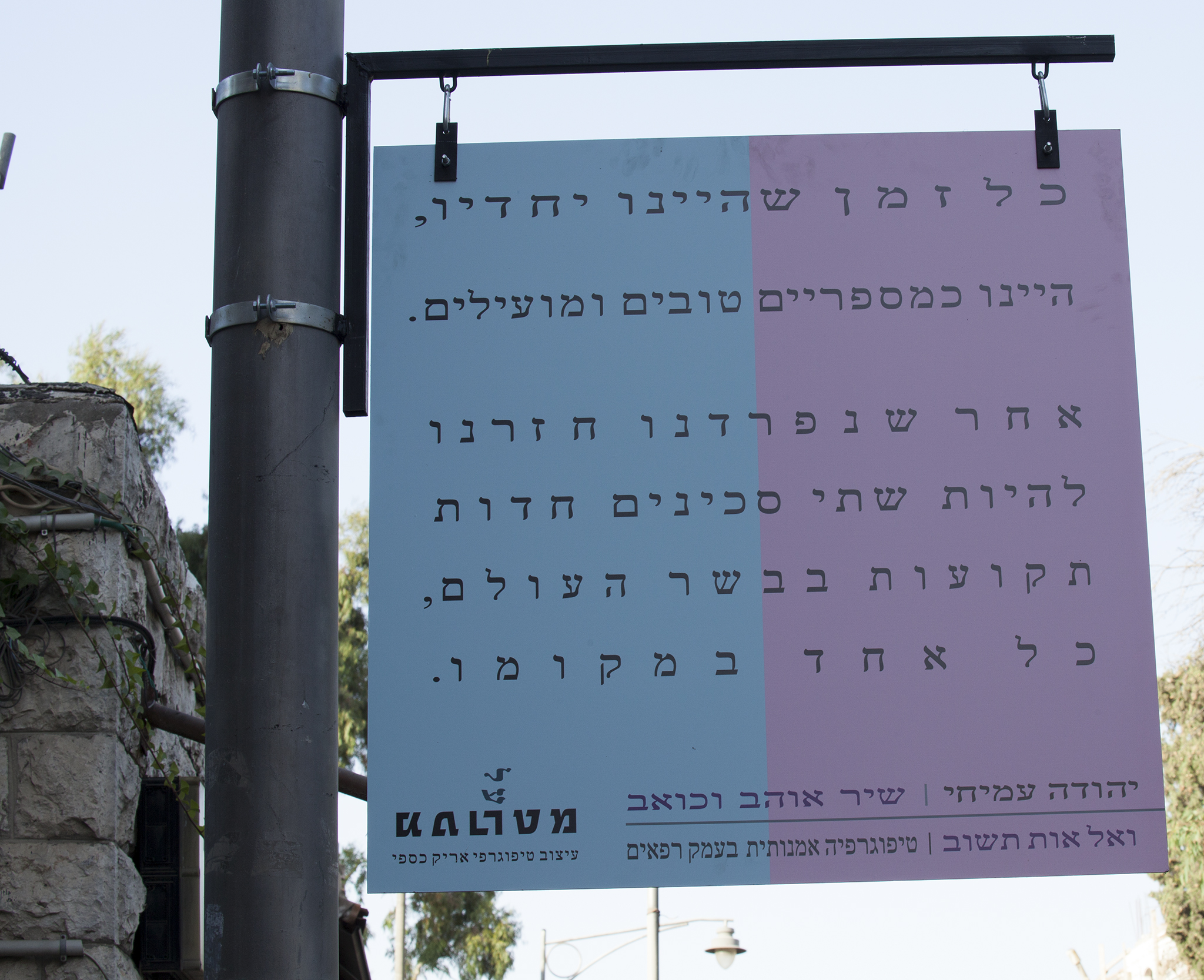 poem by Yehuda Amichai in Emek Refaim street יהודה עמיחי - מספריים Jerusalem